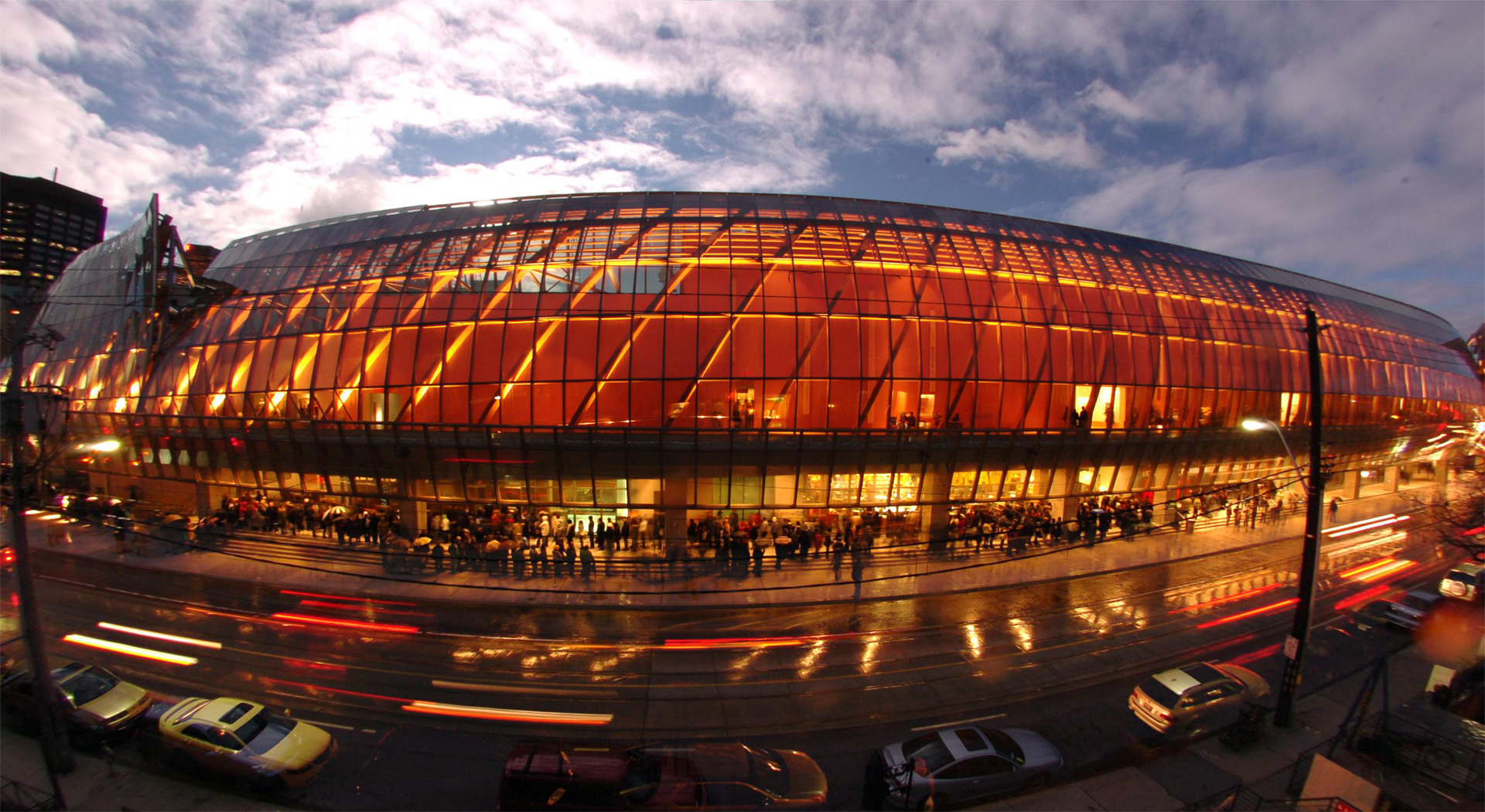 Lightvector painting of Art Gallery of Ontario. Opening-weekend of Transformations AGO